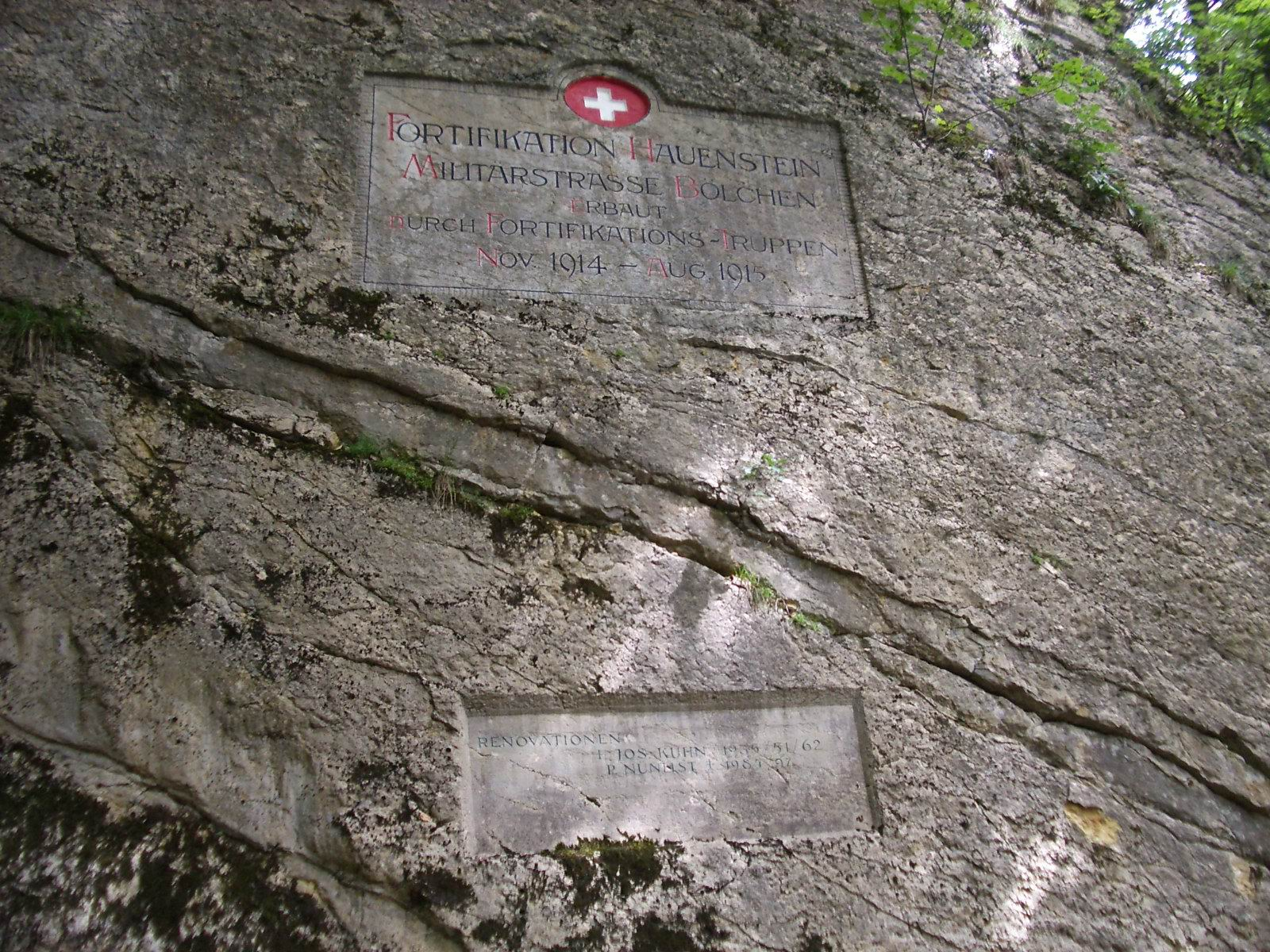 Bölchenflue, Jura Mountains, Switzerland